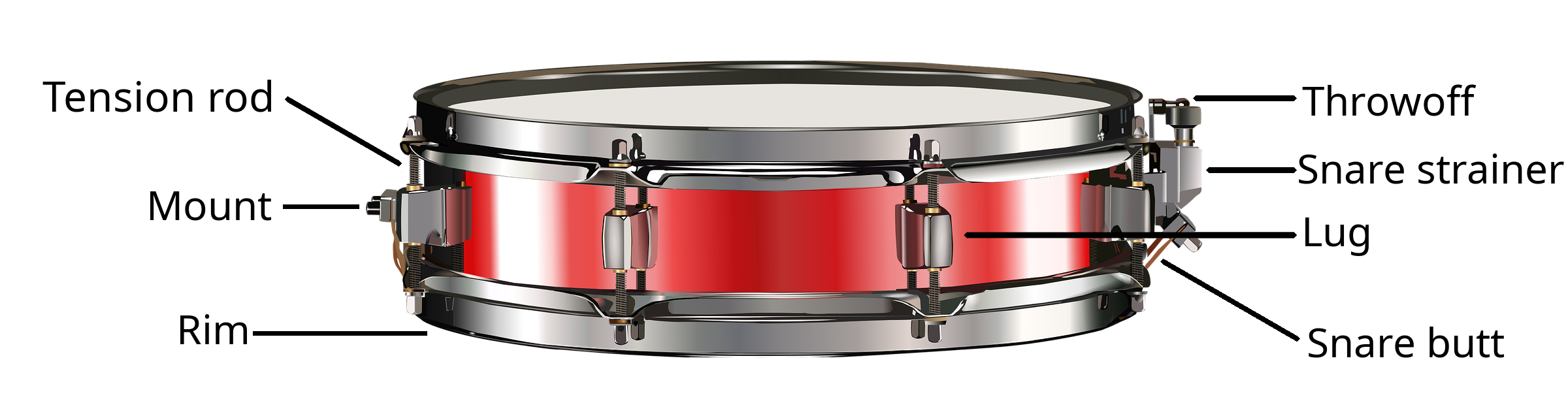 Diagram showing hardware of a typical snare drum